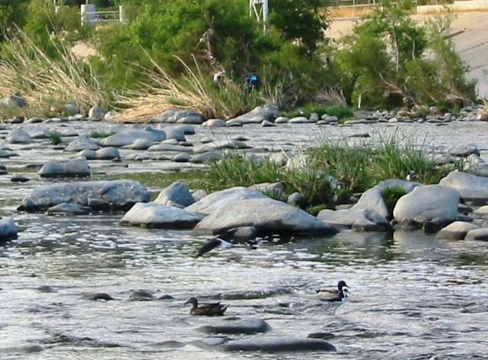 Mallard Anas platyrhynchos on the Los Angeles River, California, USA.